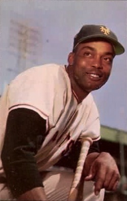 New York Giants outfielder Monte Irvin.